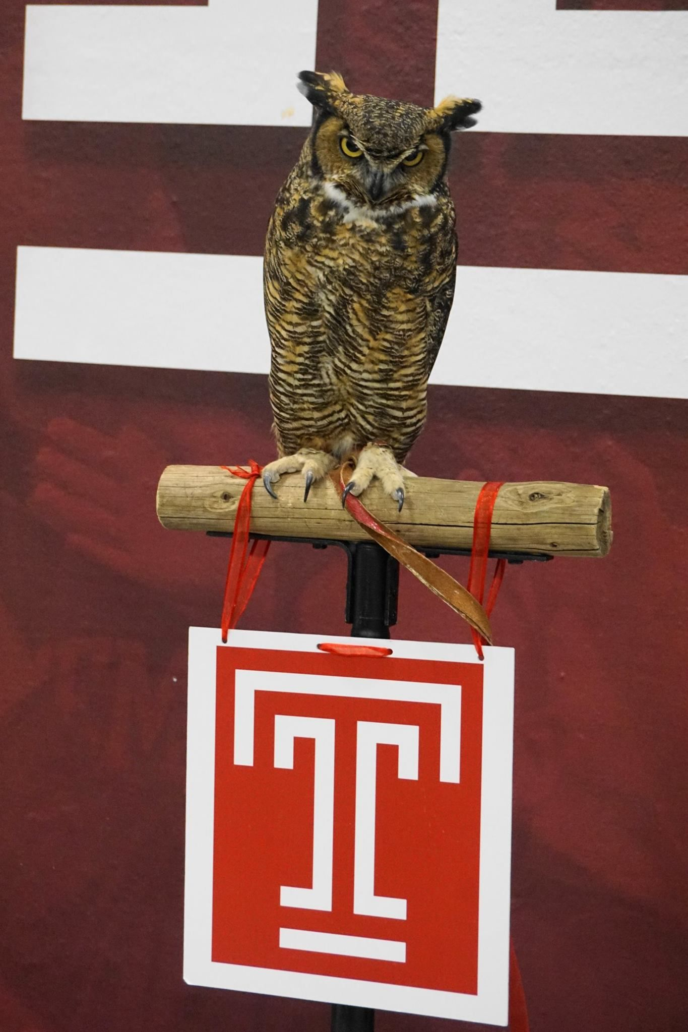 Stella the Temple mascot, appearing at the UConn Temple game on 1 February at McGonigle Hall.